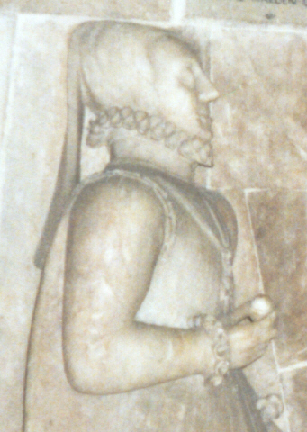 Memorial effigy of Blanche Parry on her unused tomb at St Faith's church, Bacton